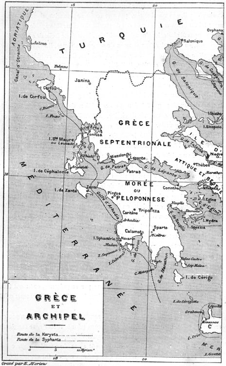 A map from Jules Verne's novel "The Archipelago on Fire" drawn by Léon Benett.